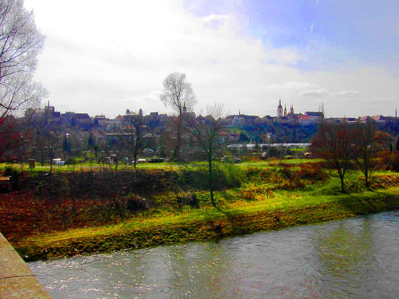 Zatec on the Ohre river (Bohemia)